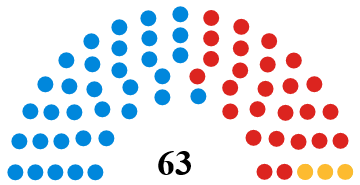 Trafford Council Composition 2016 after Local Elections 5th May 2016.